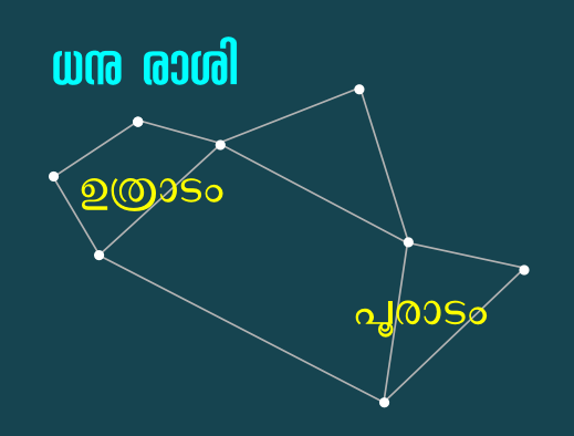 Sagittarius Constellation Malayalam